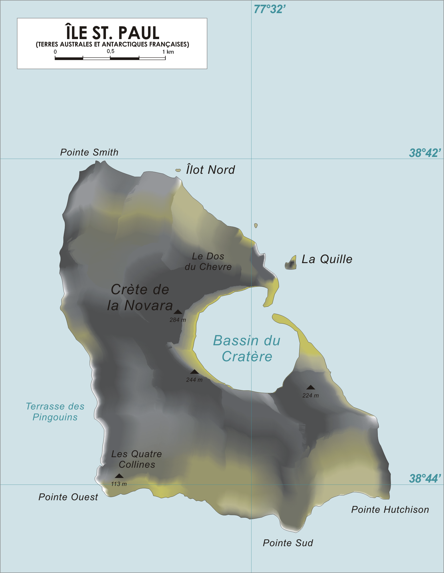 Map of Saint Paul Island, French Southern and Antarctic Territories